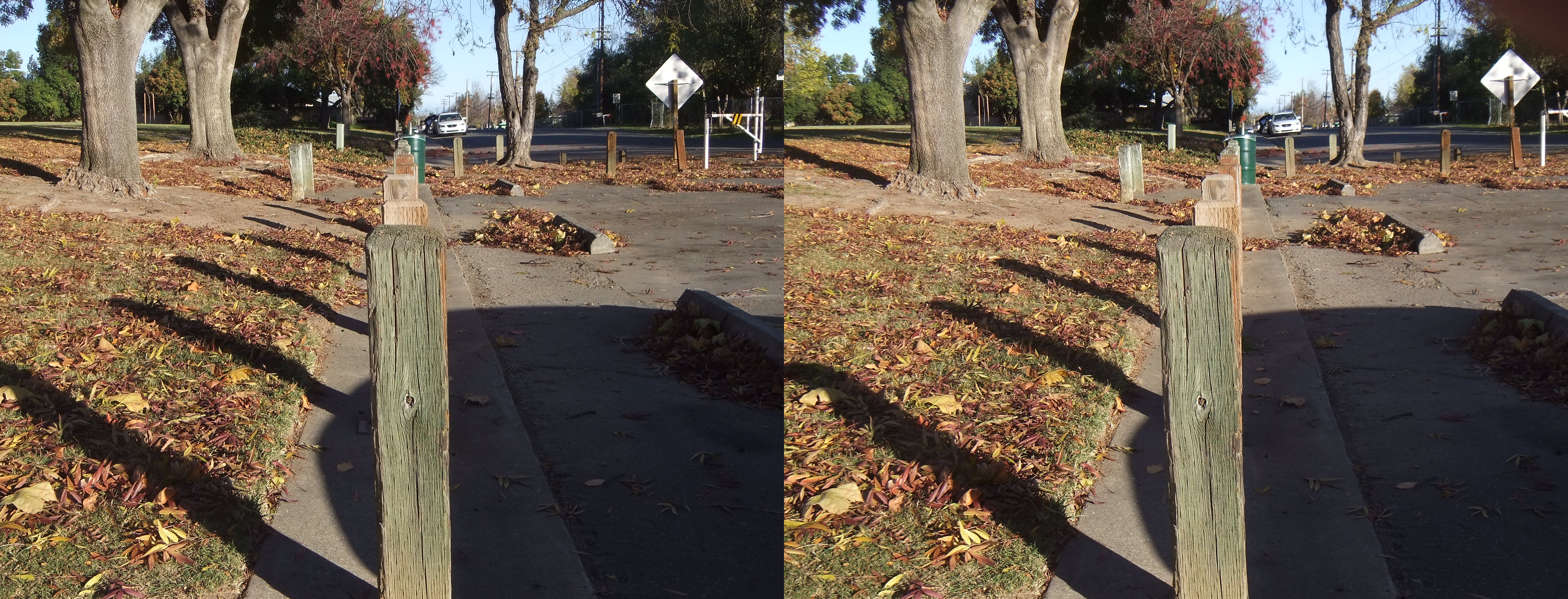 Sample image from Fuji W1, converted to JPG. Taken on November 27, 2009 in Walerga park, Sacramento CA 95841